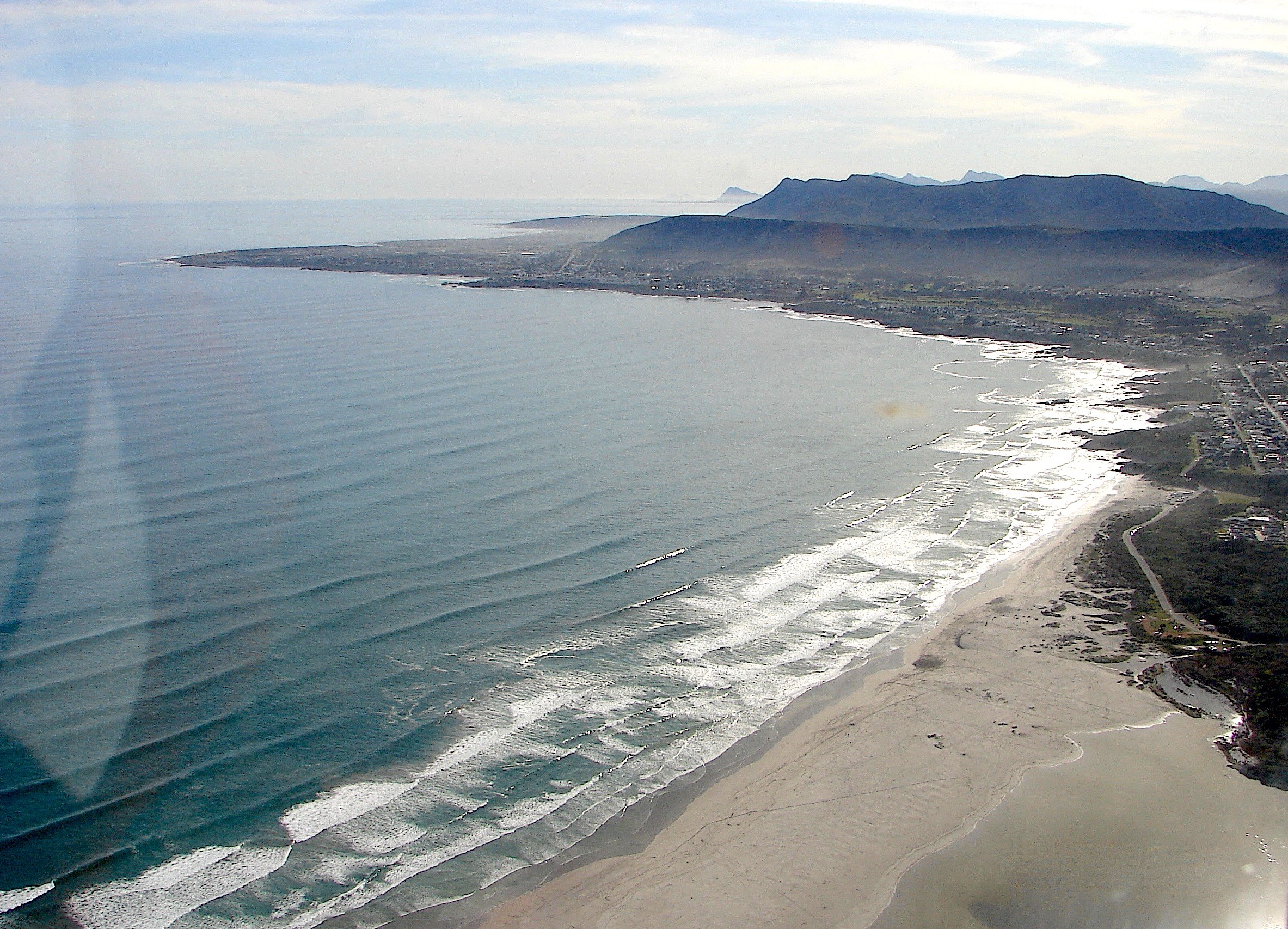 Coastline of Hermanus and Grotto Beach (South Africa)